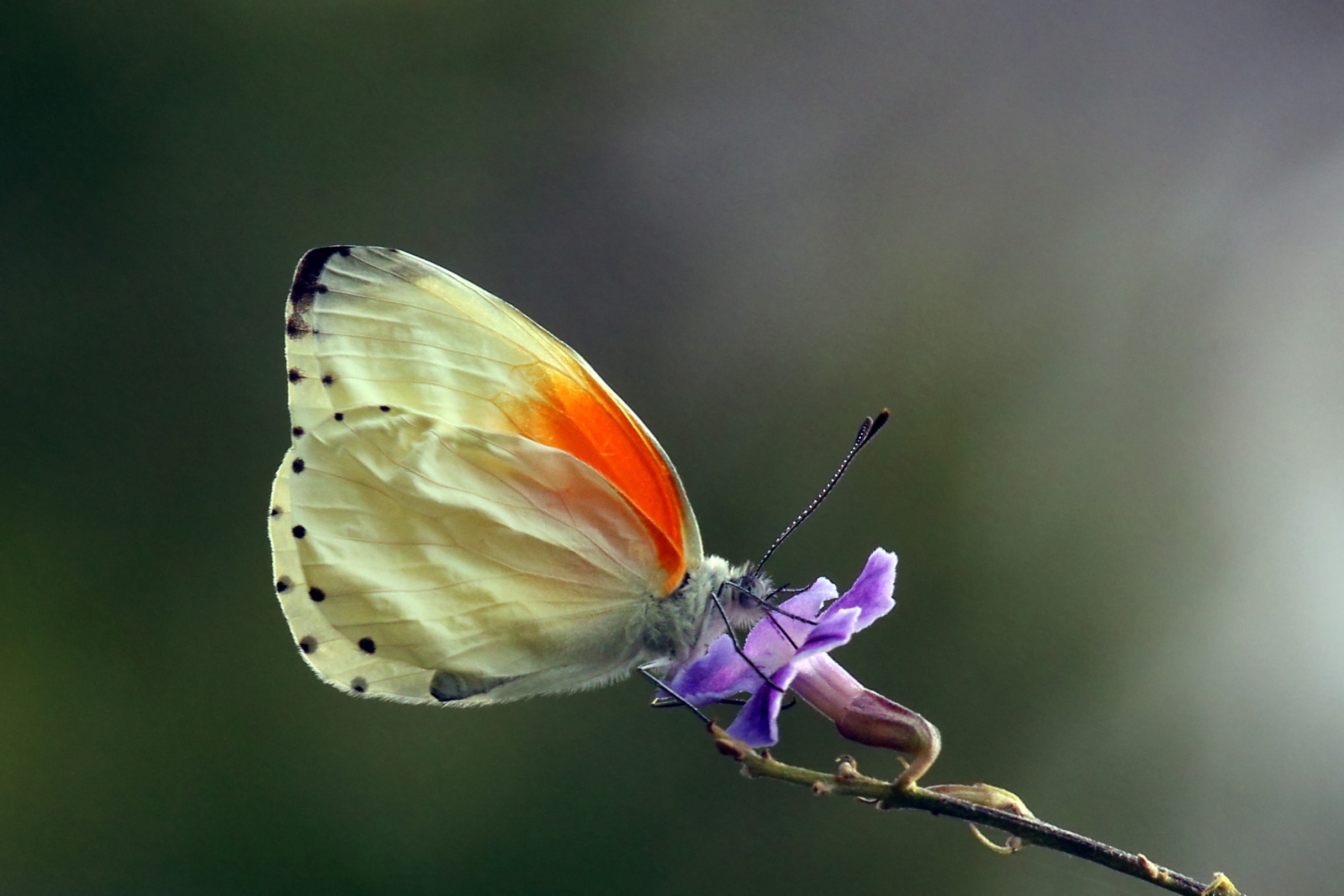 Twin dotted border butterfly (Mylothris rueppellii haemus) underside, Johannesburg, South Africa